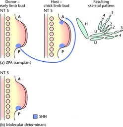 ZPA-Transplantation in der sich entwicklenden Extremitätenknospe